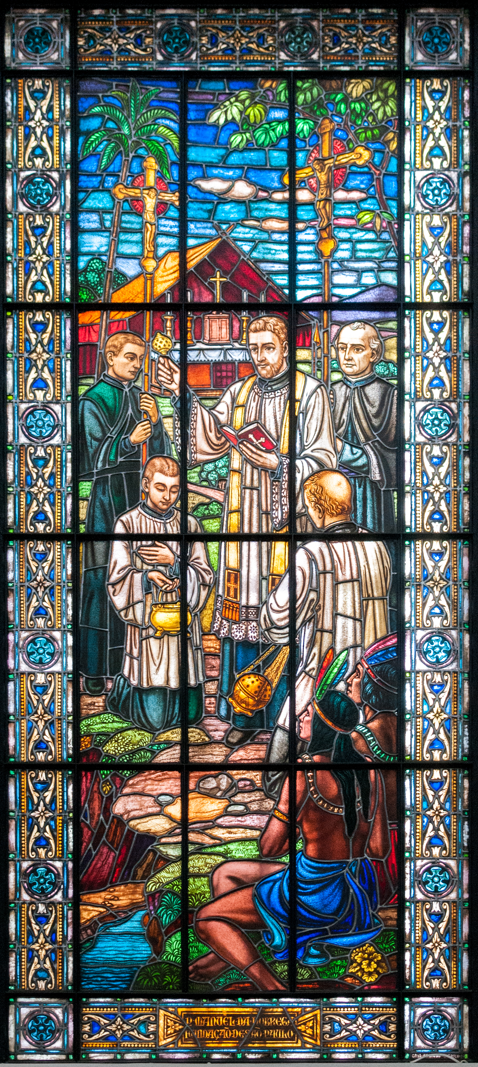 Pde. Manuel da Nóbrega - Fundação de S. Paulo - Stained glass in Church of Paróquia São Luiz Gonzaga, Avenida Paulista, São Paulo, Brazil